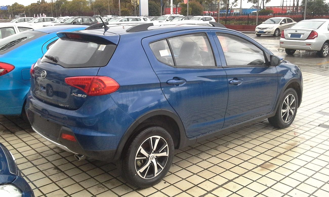 Lifan X50 photographed in Shanghai, China.